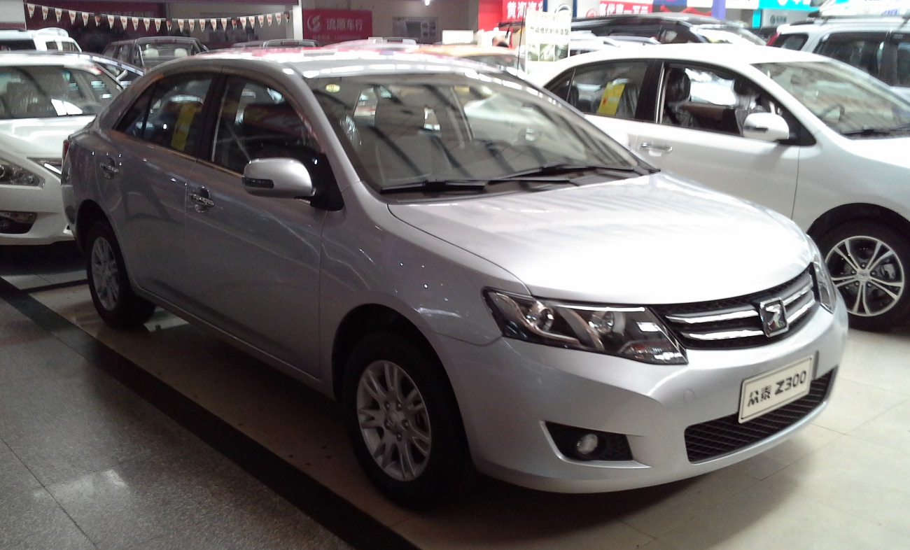 Zotye Z300 photographed in Chengdu, Sichuan province, China.